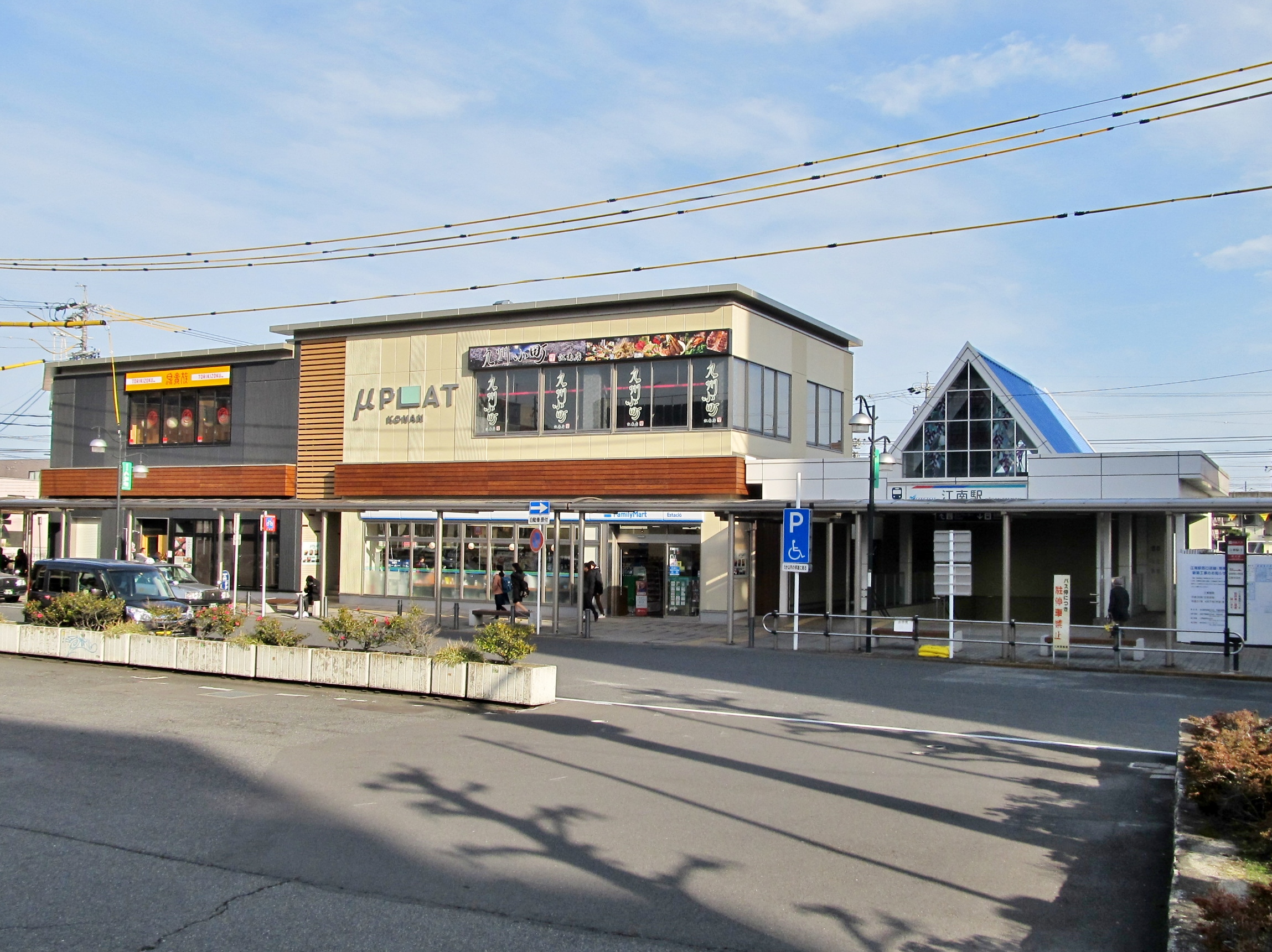 Nagoya Railroad Inuyama Line Kōnan Station West Gate